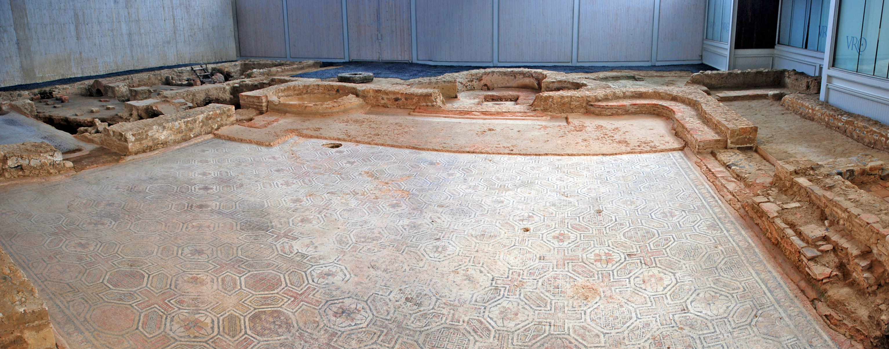 Ancient Roman thermae in roman villae of La Olmeda, Pedrosa de la Vega (Palencia, Castile and León).